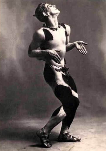 Adolf de Meyer (1868-1946). Vaslav Nijinsky, 1912